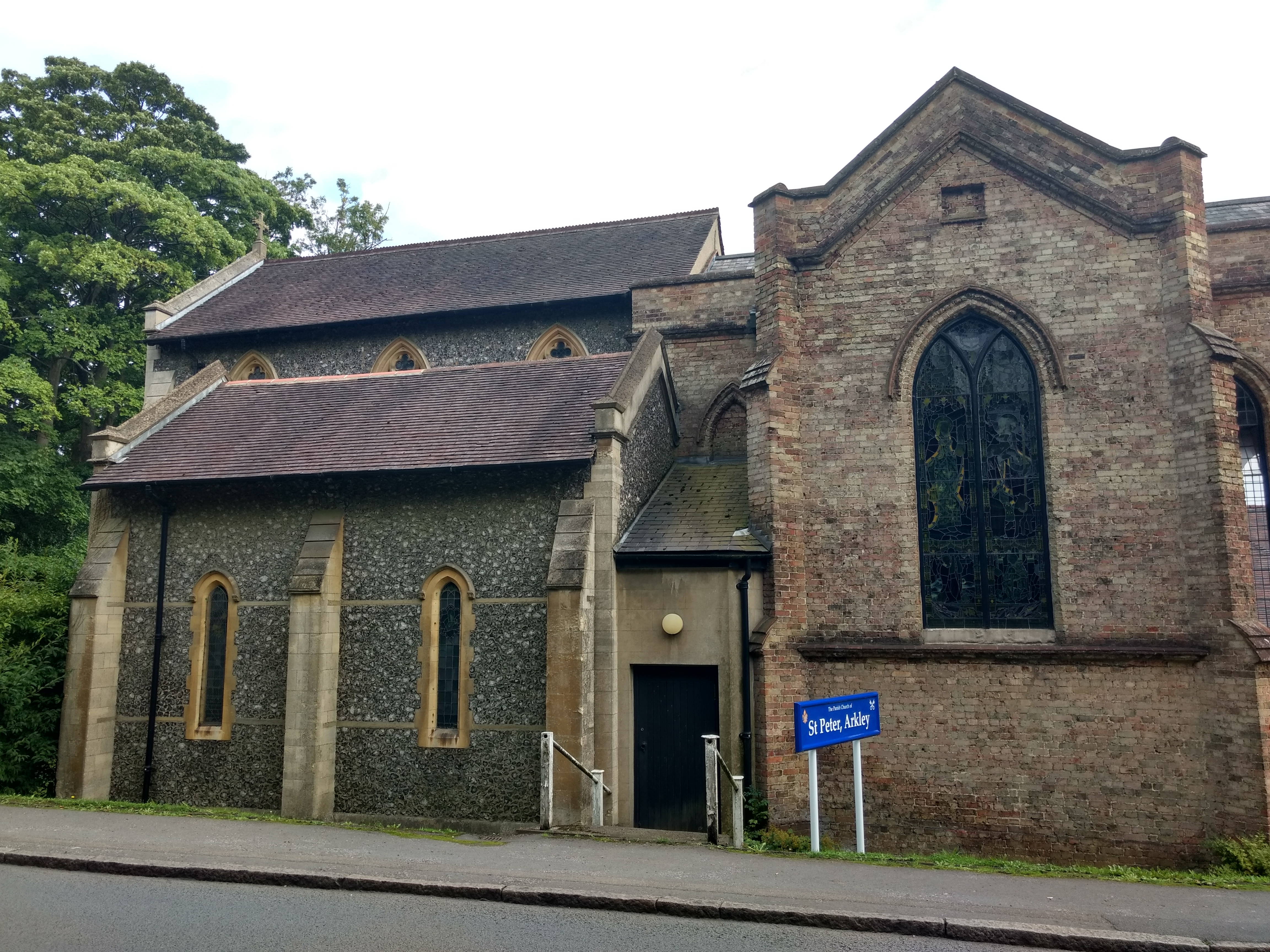 St Peter's Church, Arkley